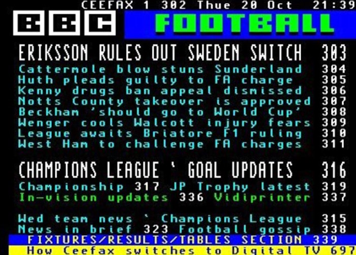 Ceefax football index from October 2009.